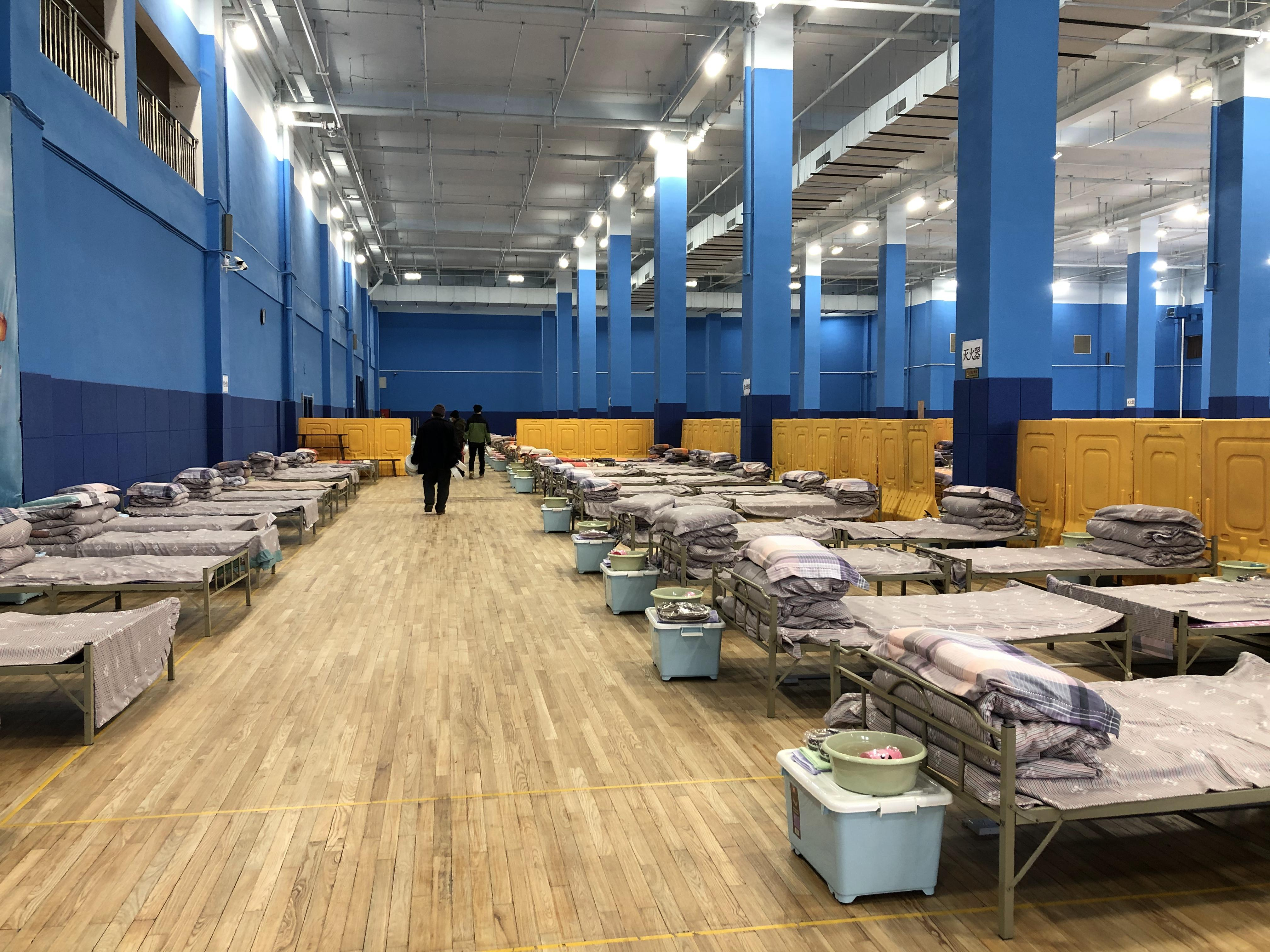 A Fangcang hospital (makeshift hospital) in Wuhan, Hubei, China, which was converted from Tazihu Sports Center for treating mild COVID-19 patients. There were 16 Fangcang hospitals in Wuhan, and each of them could accommodate hundreds of mild patients. After these hospitals had come into use, the epidemic in Wuhan eased.[1][2]